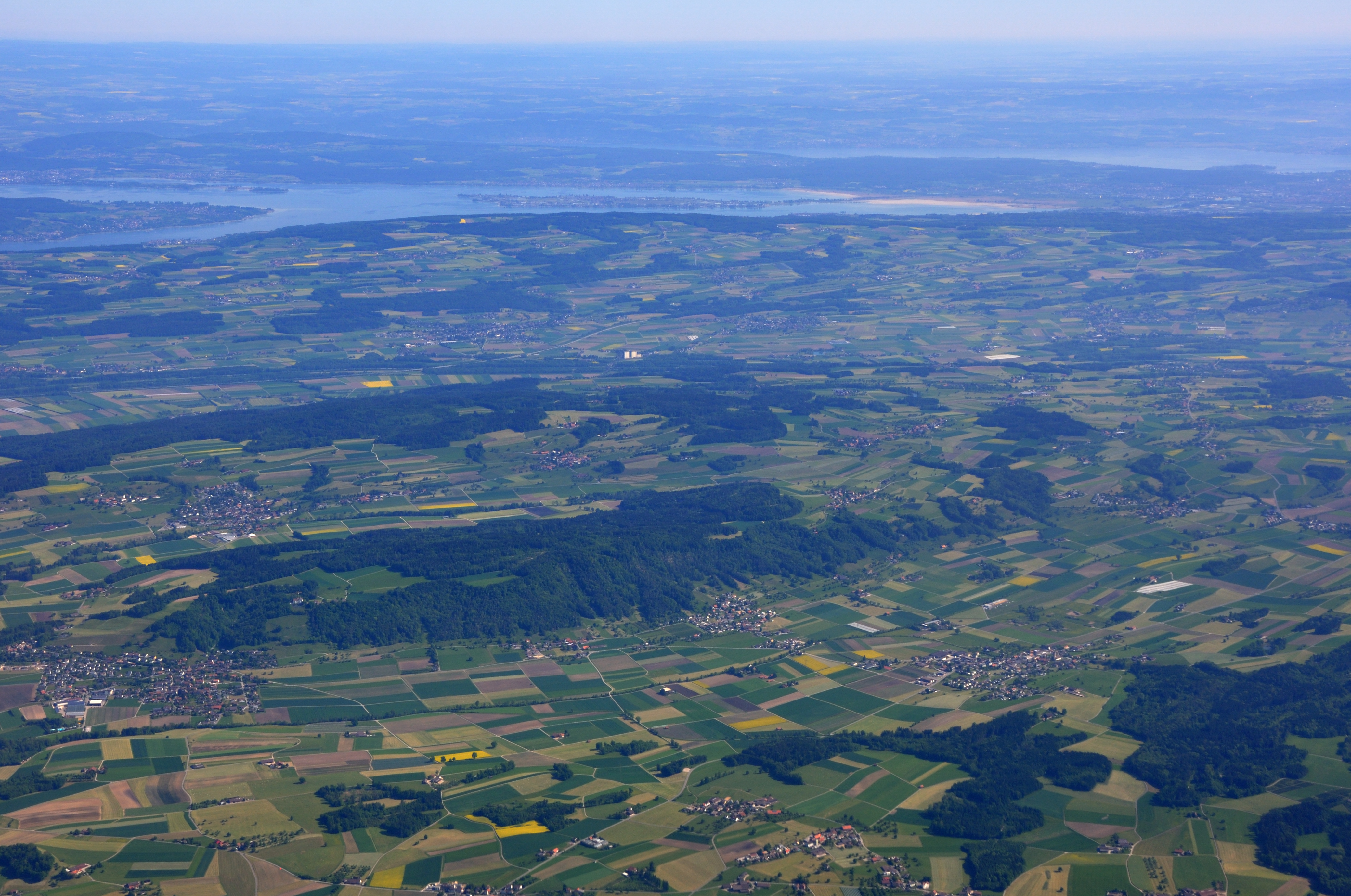 Switzerland, Thurgau, aerial view overhead Bichelsee with Lake Constance in the background